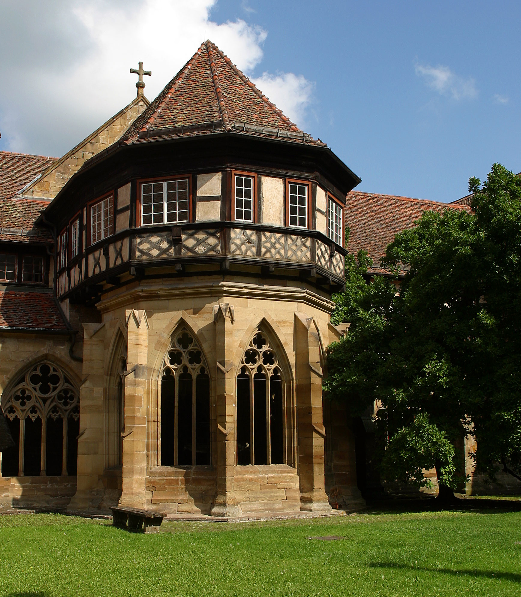 Maulbronn Monastery - Wellhouse